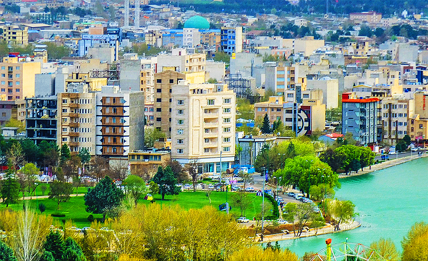 khorram adad-Xurimo-Luristan